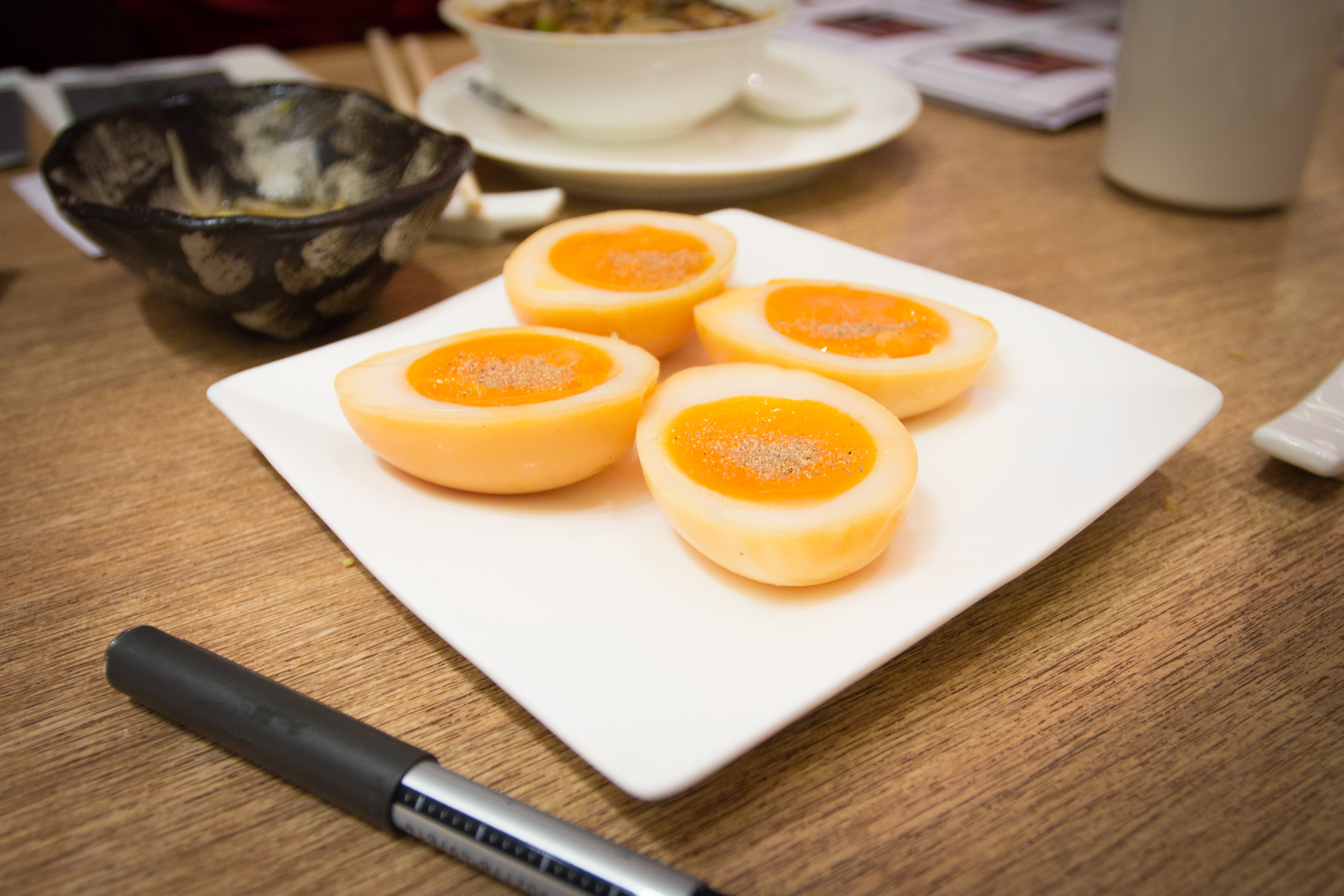 Smoked Eggs in Hong Kong restaurant